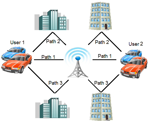 a multipath communication problem in wireless communicator systems